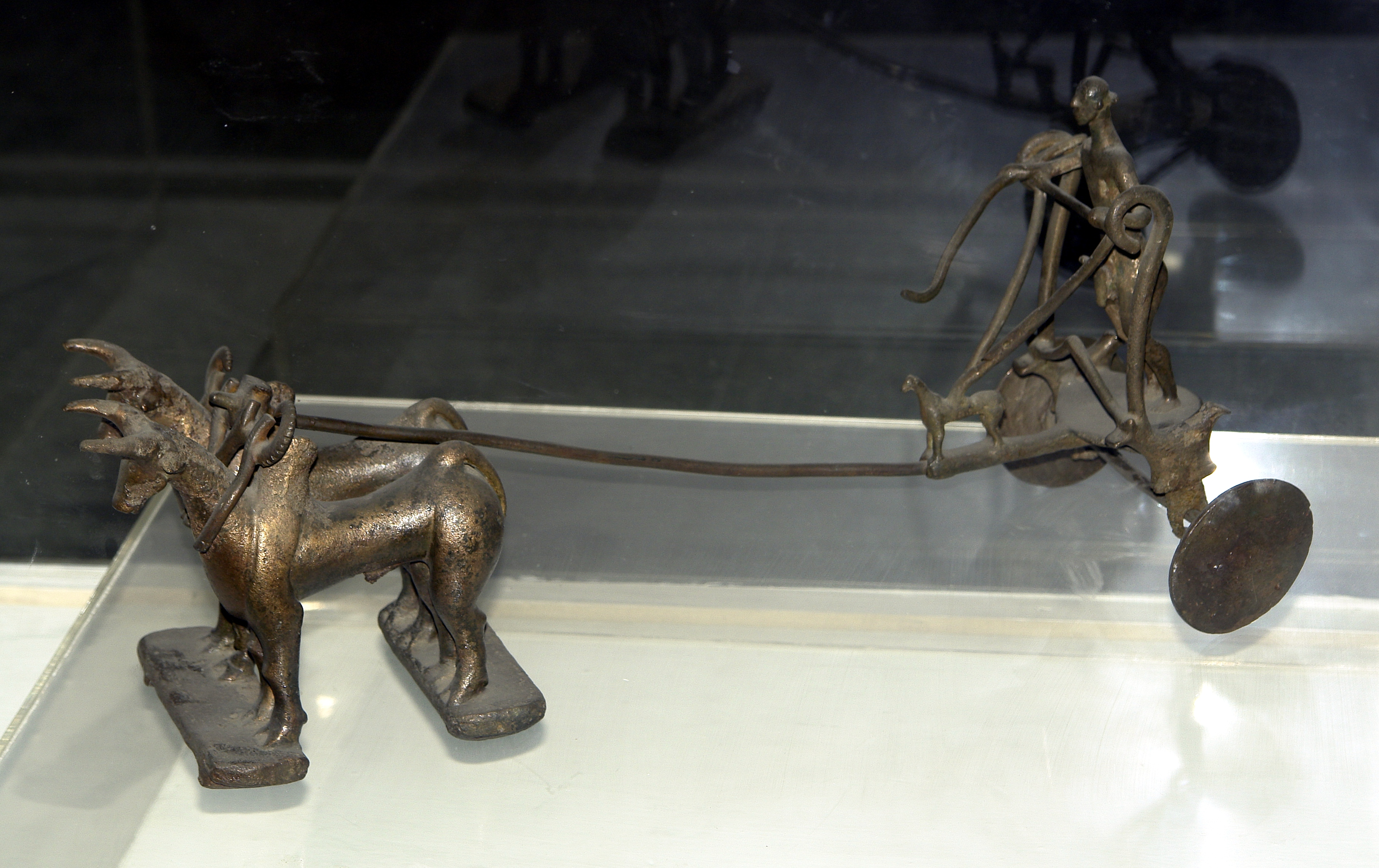 Bullock cart with driver, 2000 B.C. Harappa, National Museum, New Delhi.